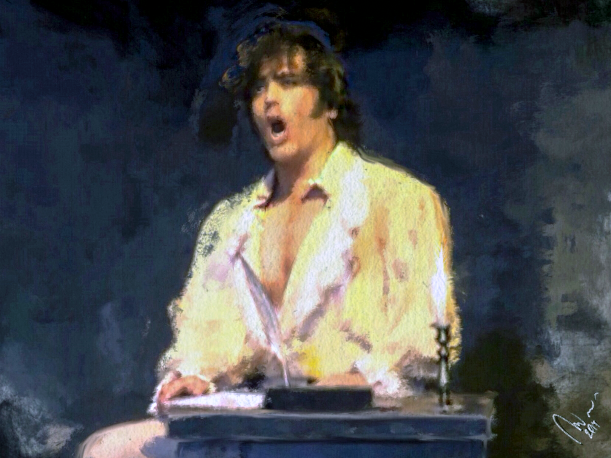 Mario Cavaradossi, in the opera's (Tosca) climax in the third act, ("E lucevan le stelle"); inspired by the tenor Giancarlo Monsalve. Paint by Riccardo Manci, February 2014